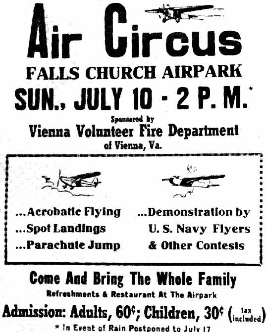 1949 Poster for an air show to be held at the Falls Church Airpark, Fairfax County, Virginia